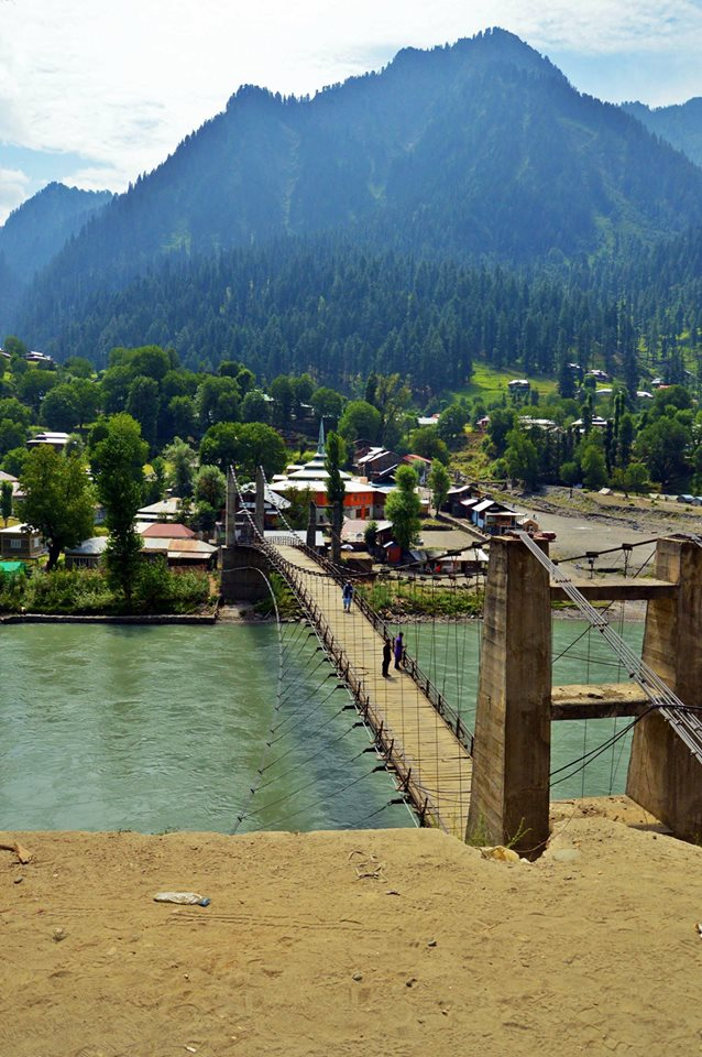 The place is one of the most admired one in Neelum Valley.